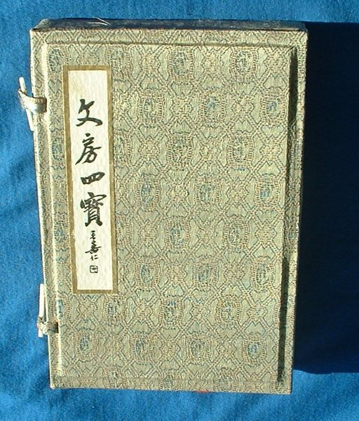 Four treasures of Chinese calligraphy